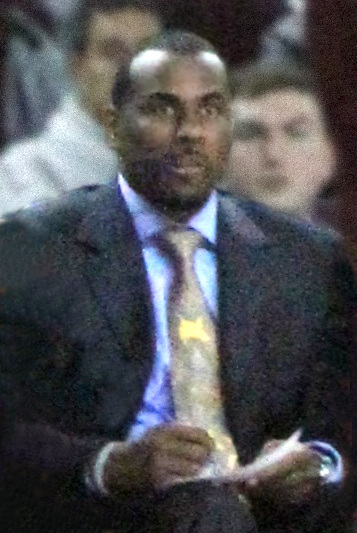 Arizona State University associate head coach Dedrique Taylor during a game at USC on Feb. 26, 2011.